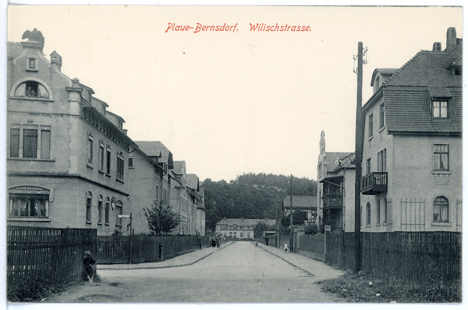 This postcard is from publisher Brück & Sohn in Meißen ( This postcard has a unique number 15996 and is available in a higher resolution at the publisher. This images was uploaded in a cooperation project between Wikipedians and the publisher.